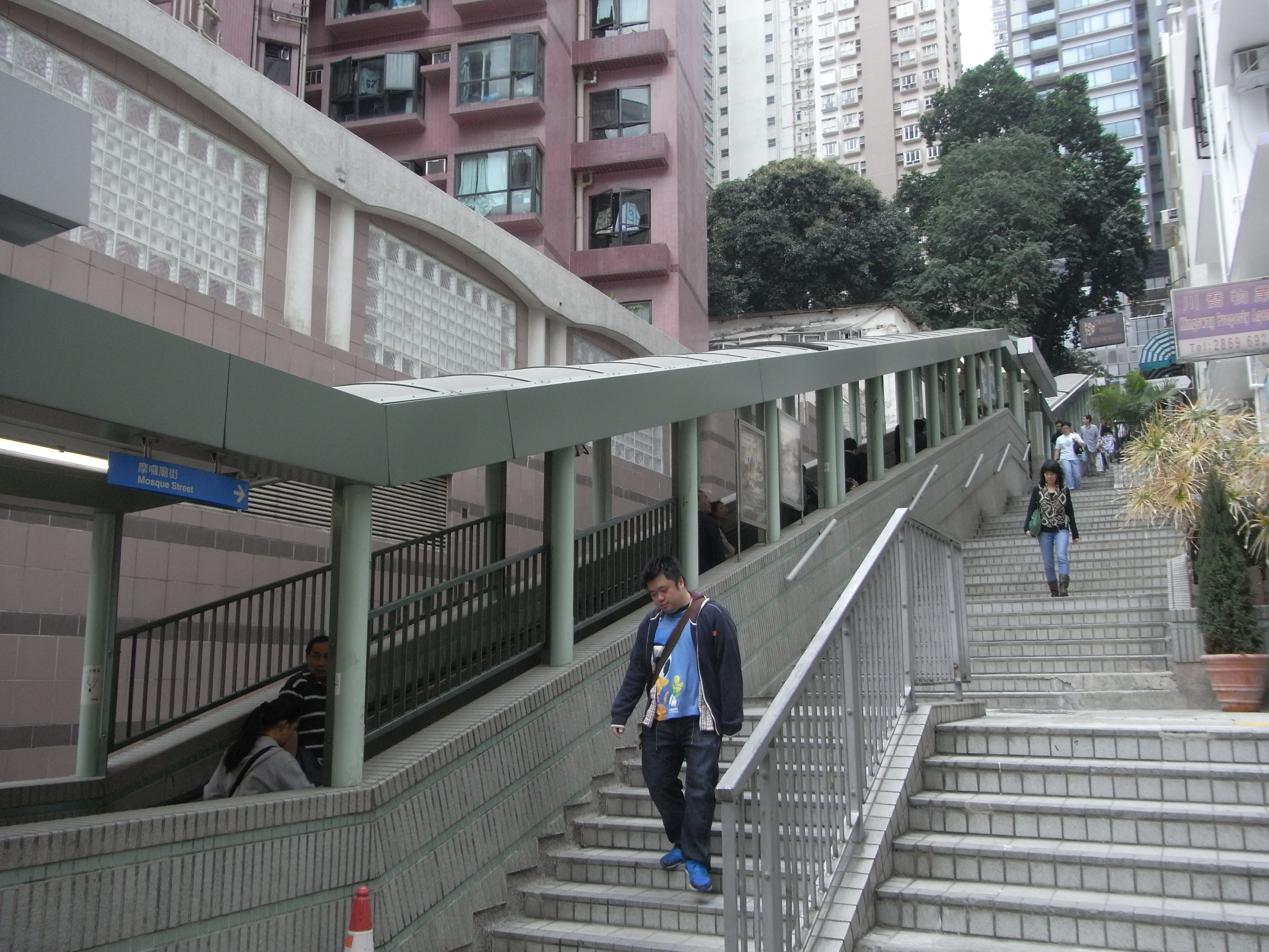 香港島半山區住宅御景臺